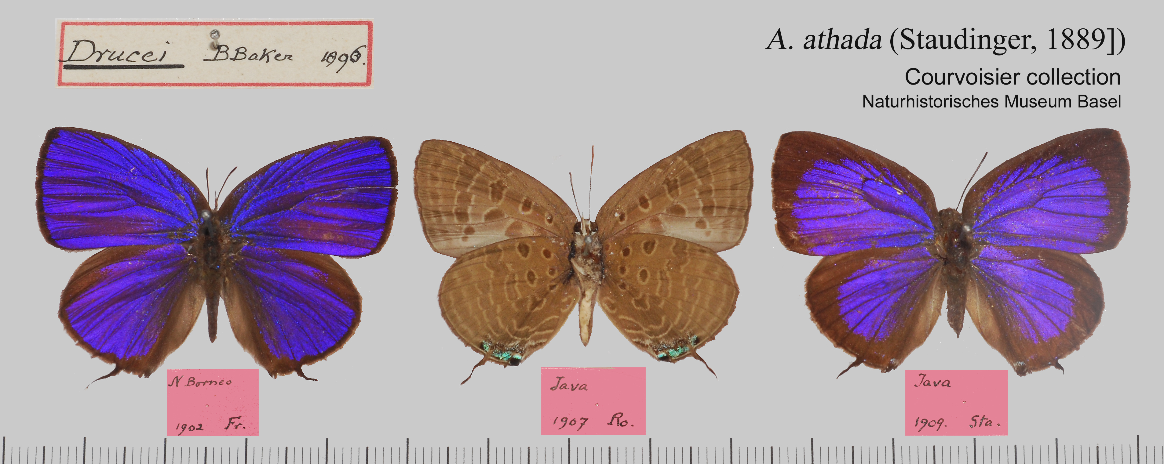 Arhopala athada, male, female, Borneo, Java, Courvoisier collection NHM Basel, Alan Cassidy photo.